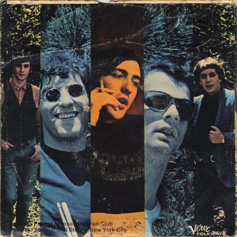 Trade ad for Blues Project's album Live at The Cafe Au Go Go.To better adapt it to his respective Wikipedia article, the ad was cropped and cleaned in a graphics editing program. The original can be viewed at the source below.